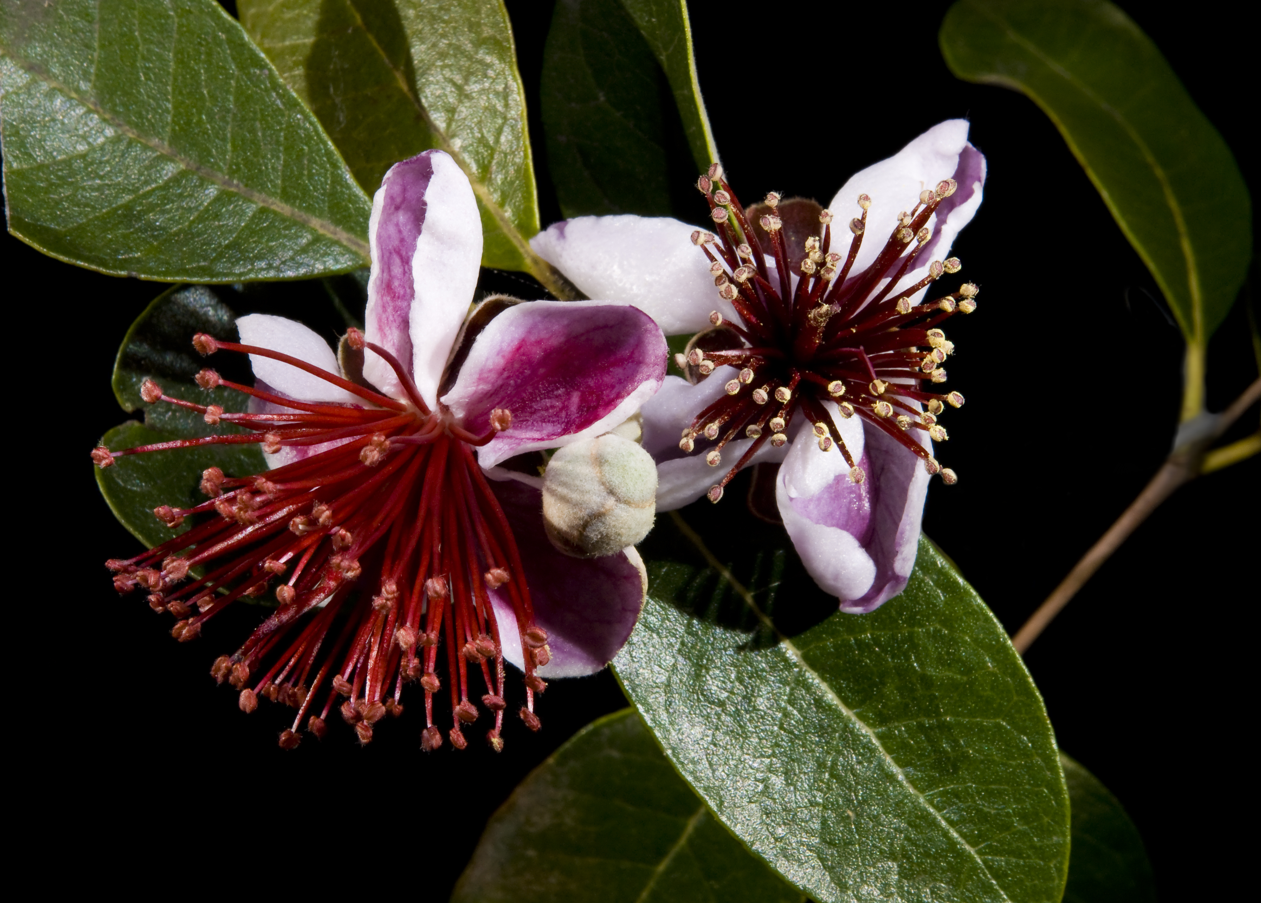 pineapple guava (Acca sellowiana syn : feijoa sellowiana, Myrtaceae) leaves and flowers. Locality :Fronton, Haute-Garonne France.